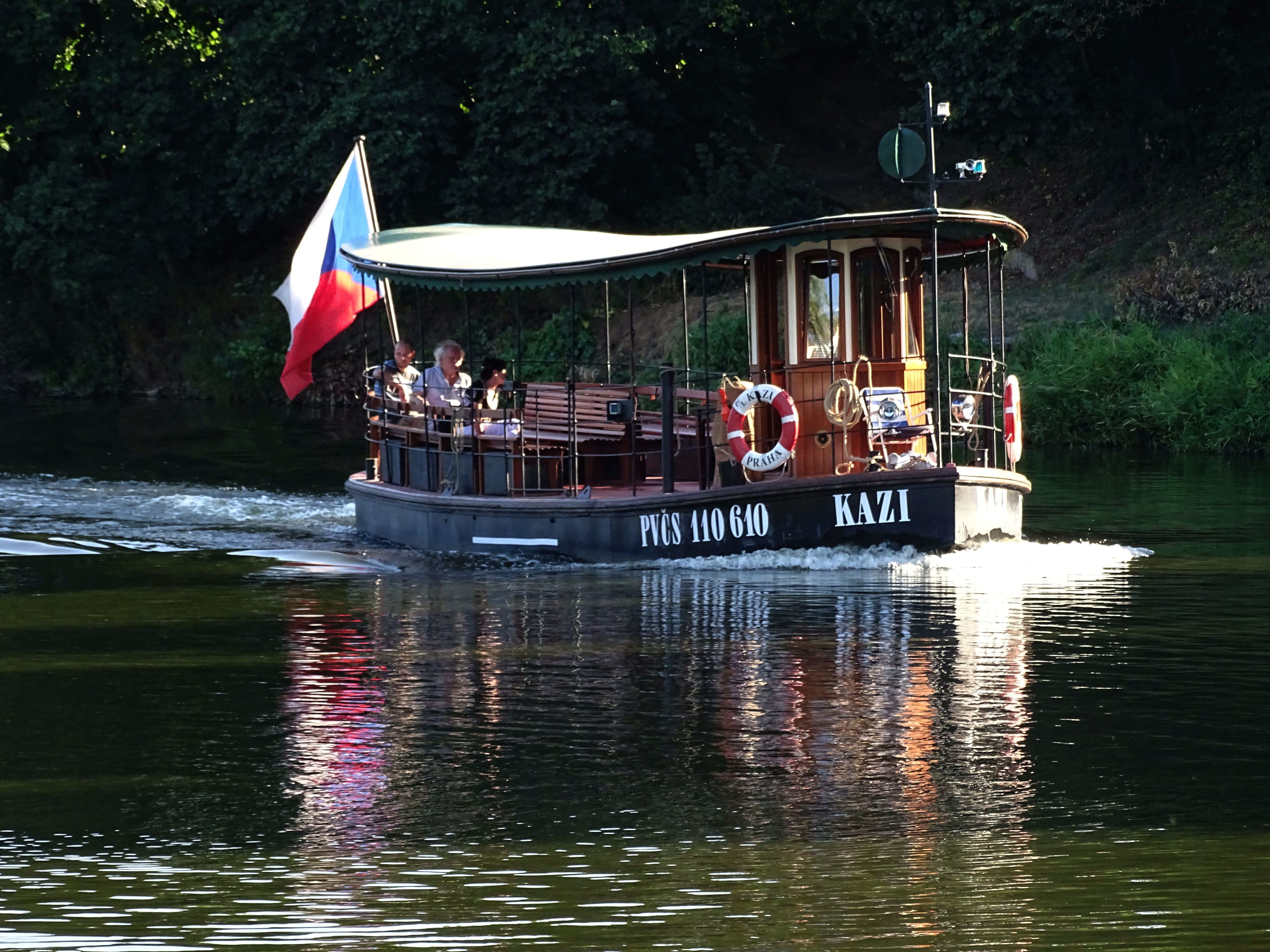 Prague-Lipence and Černošice, Praha-West District, Czech Republic. A regular line cruise from Mokropsy by Kazi boat of Pražské Benátky.